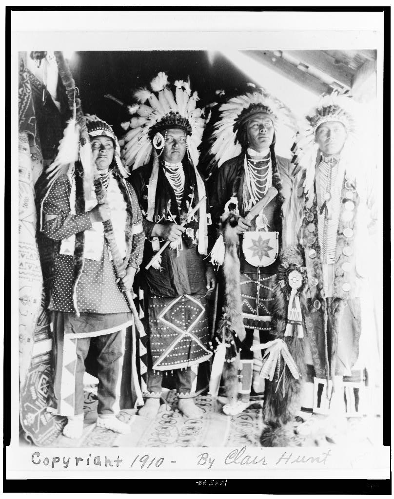 TITLE: [Four Nez Percé Indians, dressed for dance, on Colville Indian Reservation]